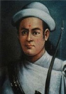 Balbhadra Kunwar, Nepalese Army Captain at Anglo Nepal war 1814-16 AD